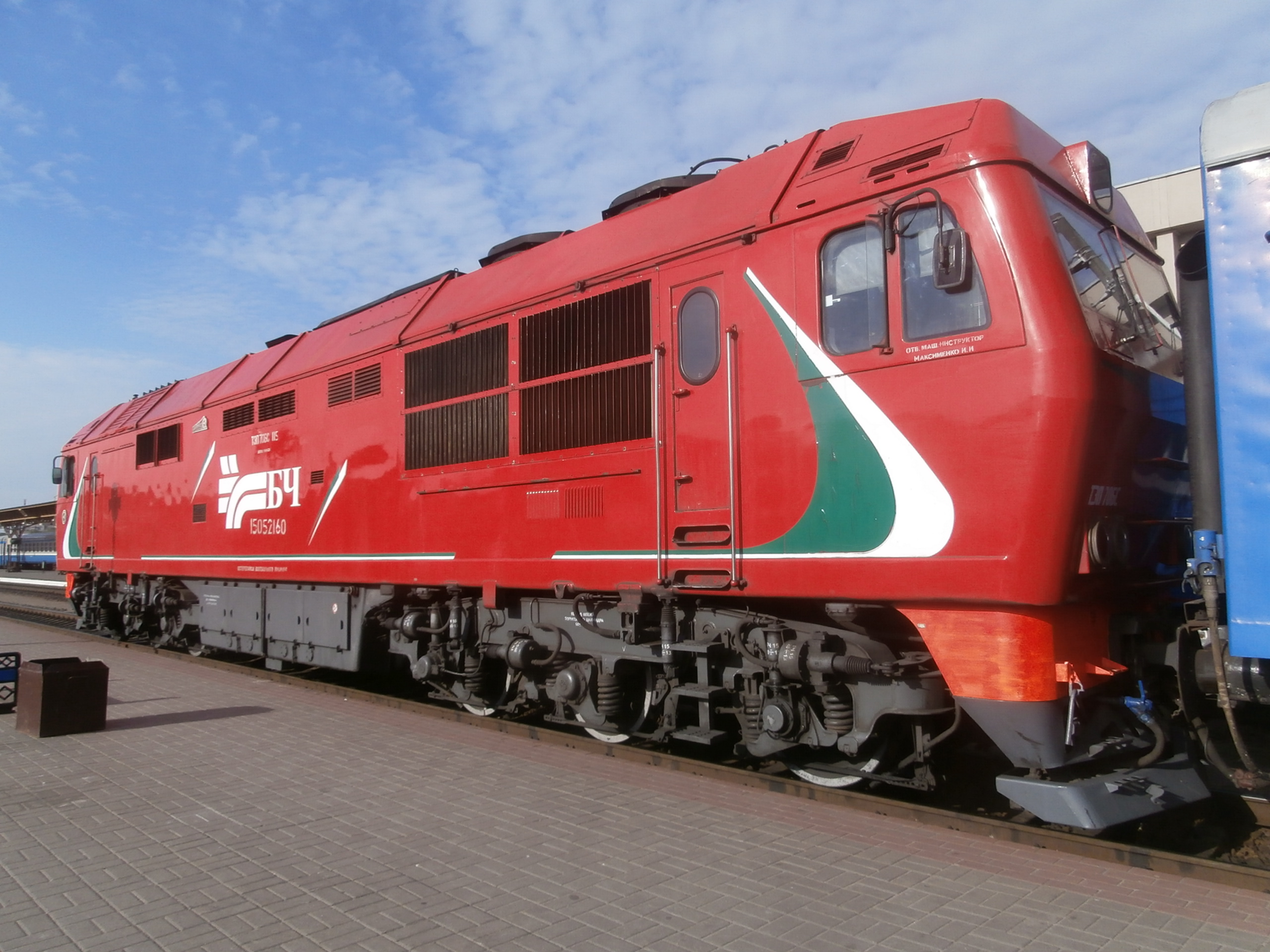 TEP70BS-115 at Gomel-Passazhirskiy Railroad Station, Gomel 7 May 2014